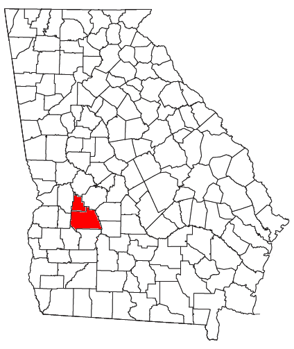 Locator map of the Americus Micropolitan Statistical Area in the southwestern part of the U.S. state of Georgia.